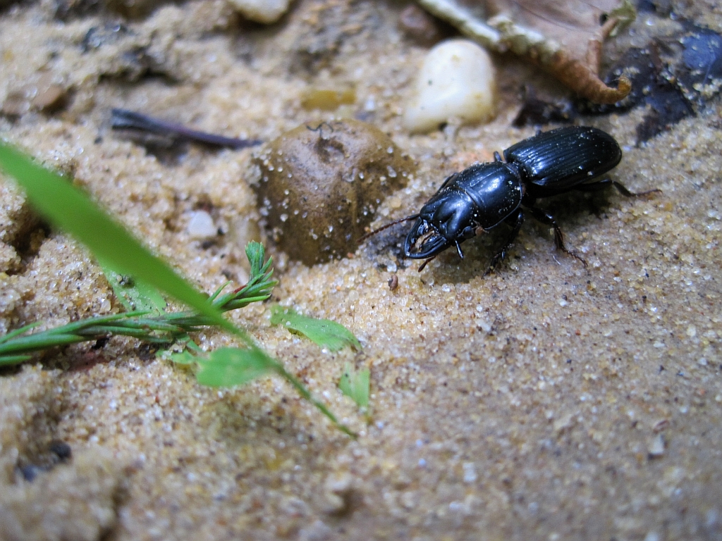 Pioneer Springs Trail at Meeman-Shelby Forest State Park in Memphis, Tennessee.